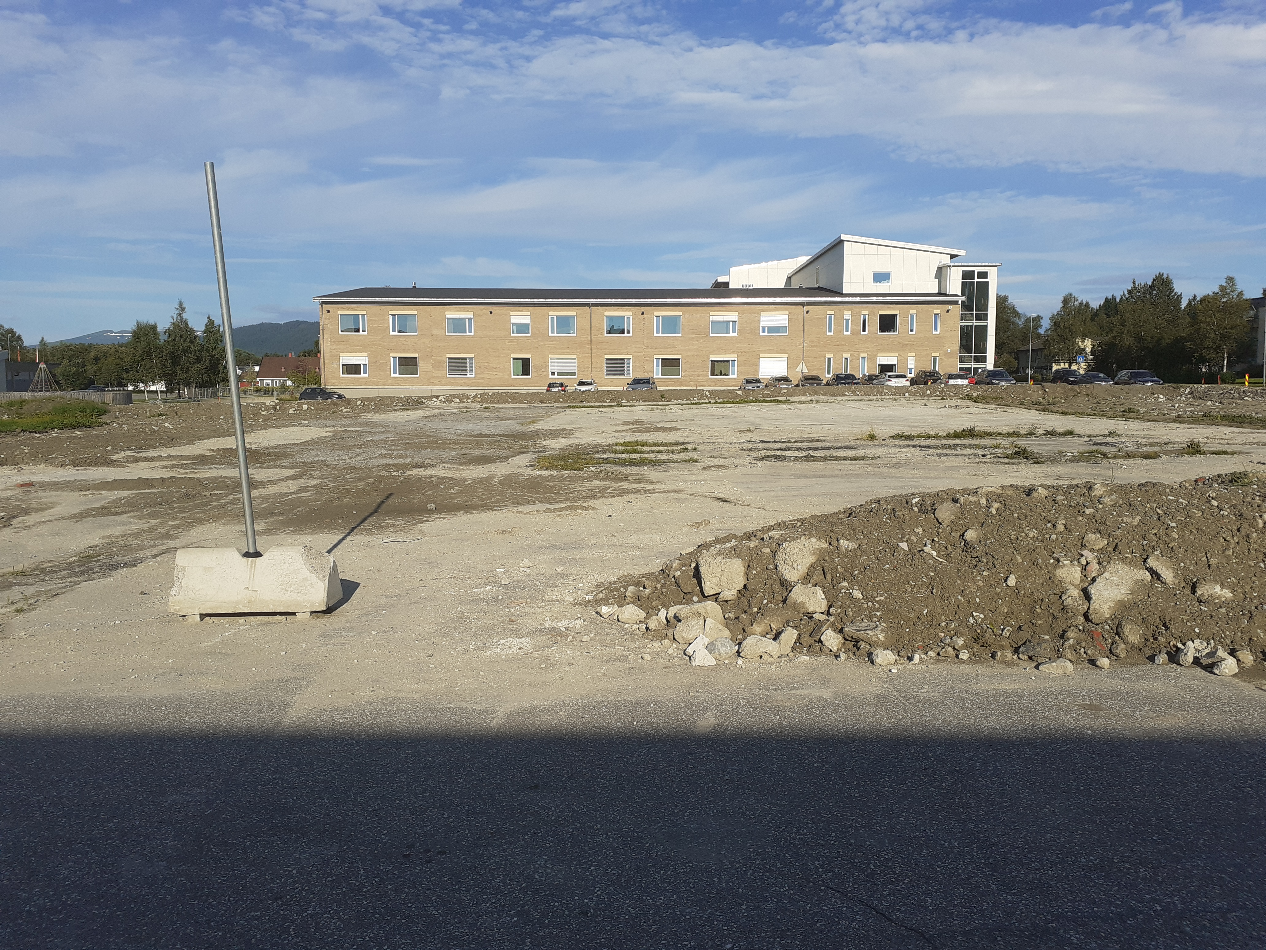 Selfors sykehjem sett fra den nedrevne Ungdomsskolen